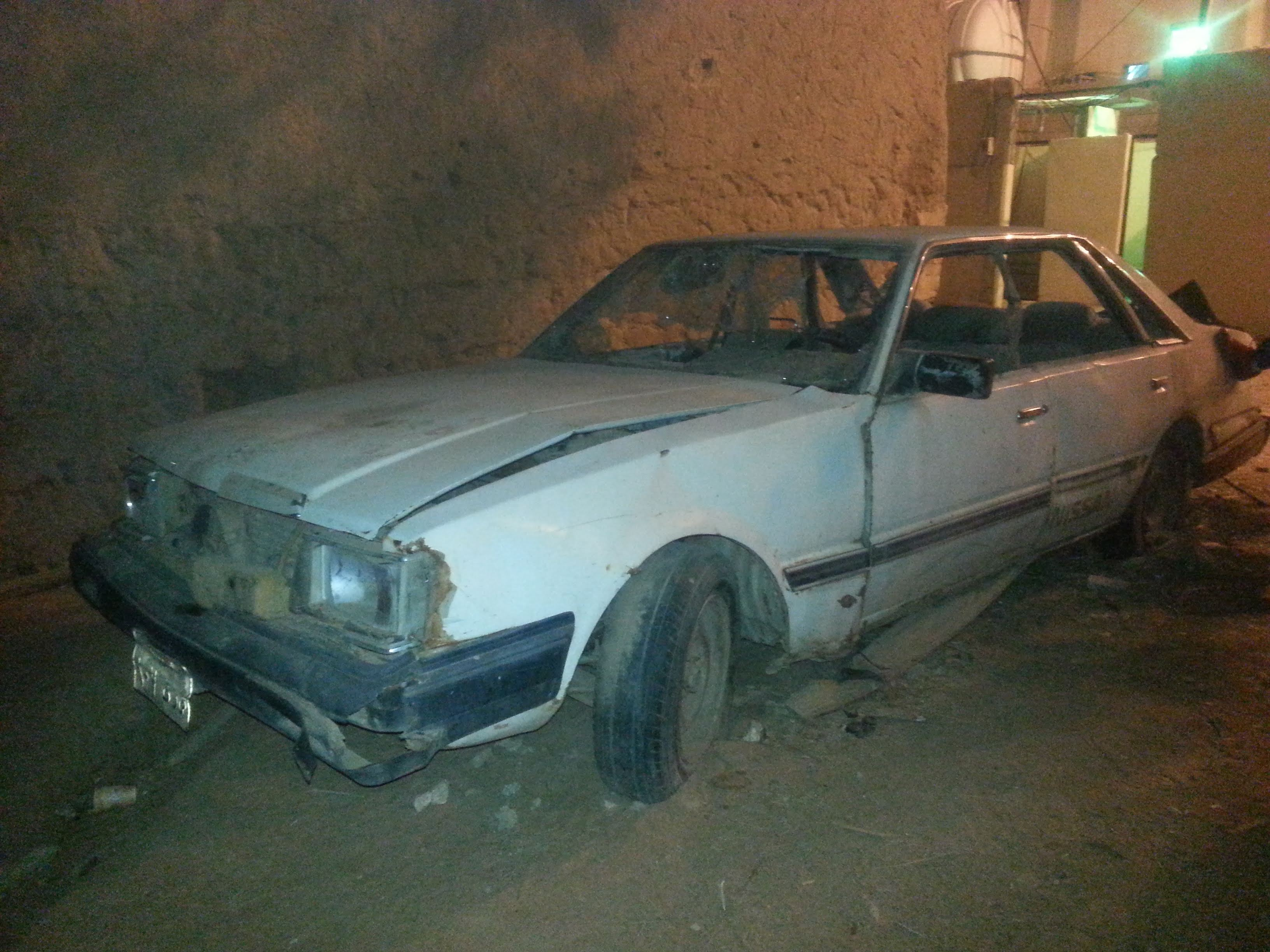 The picture shows a Toyota Cressida abandoned in Saudi Arabia